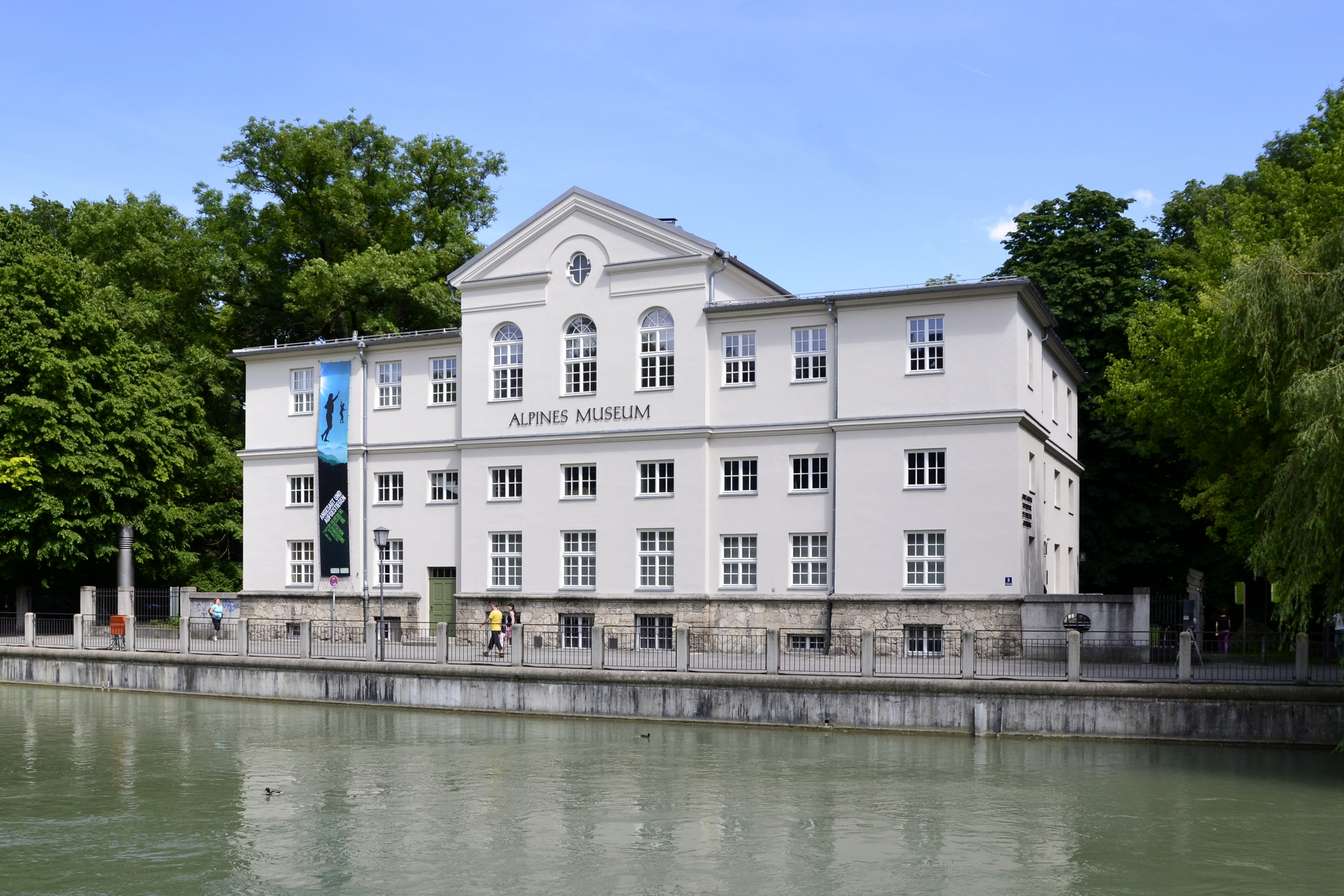 The Alpines Museum in Munich.